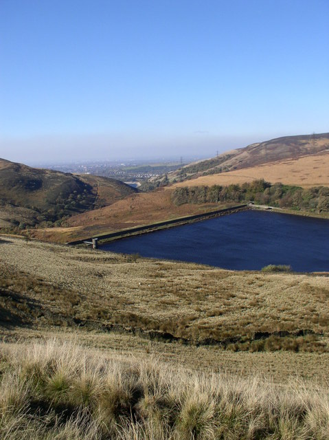 Lower Swineshaw Reservoir View SW over to Manchester.